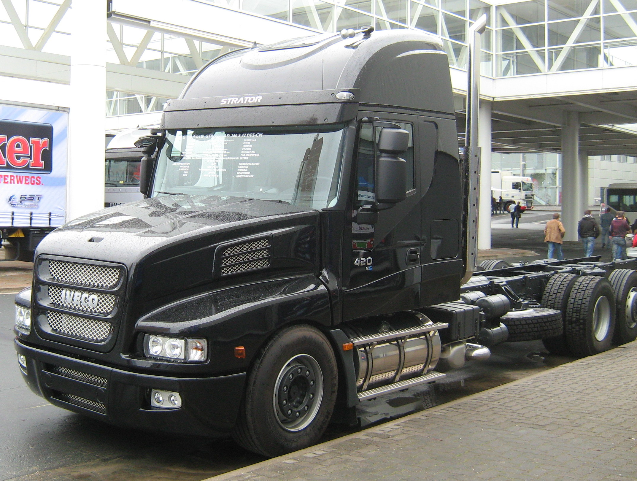 Iveco Strator 420 E5 truck in Germany. IAA 2010.